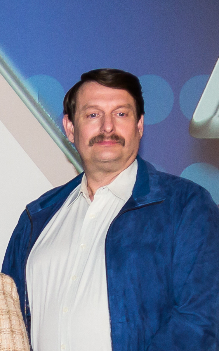 This is a cutout from the original picture showing only Peter Trabner.